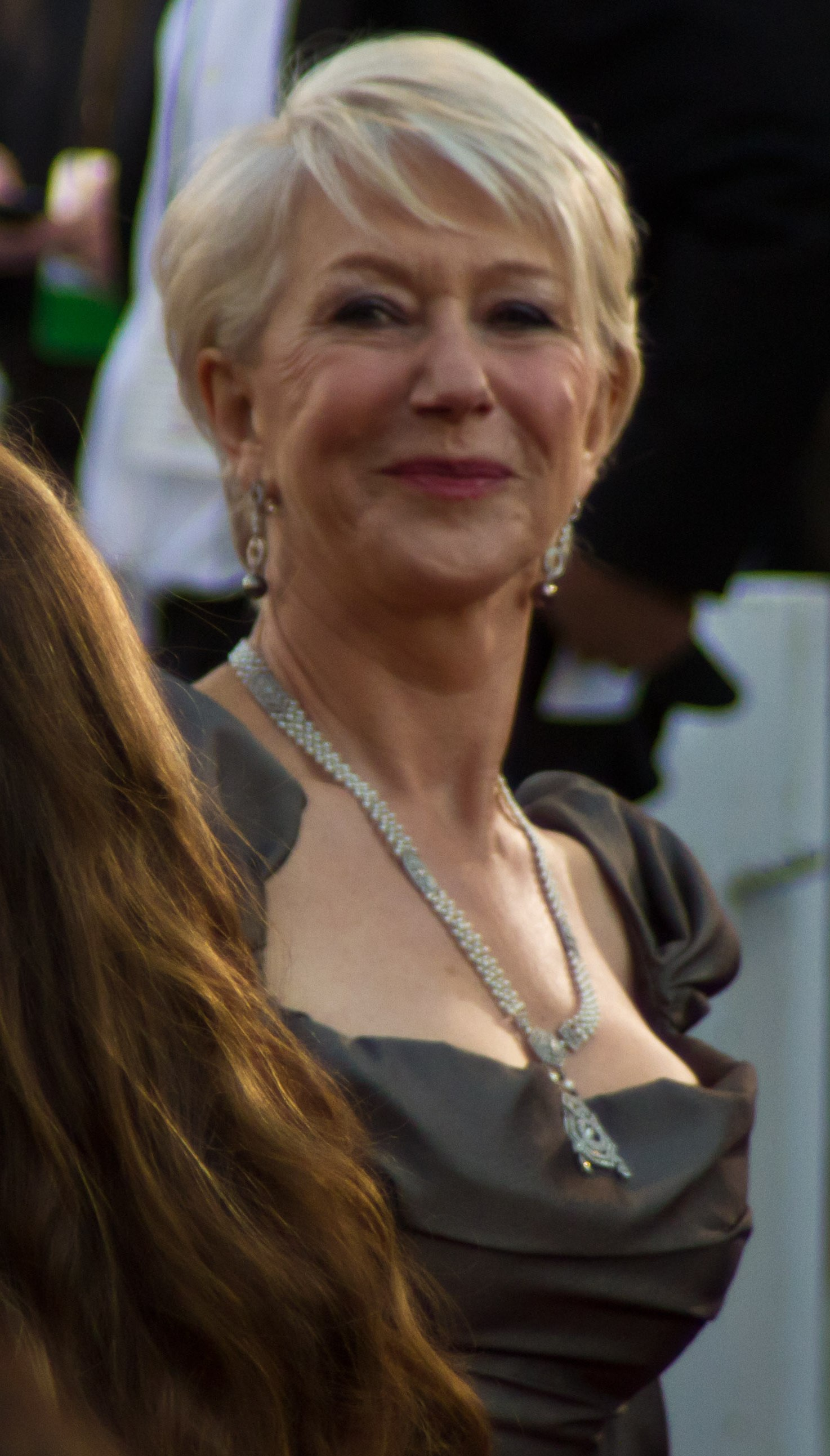 Dame Helen Mirren at the 83rd Academy Awards.